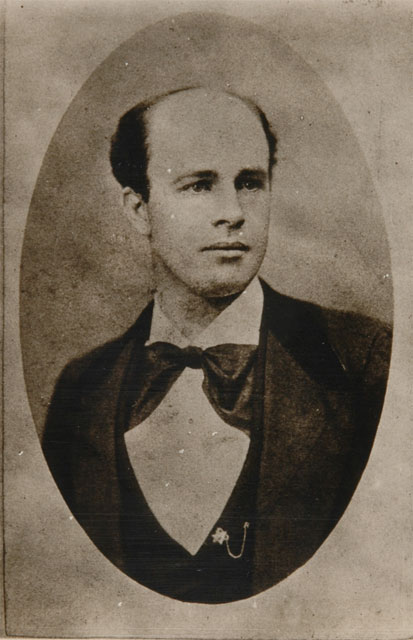 John Clum (circa 1870), an Indian Agent who was the only person to capture Geronimo peacefully, although Geronimo was later freed. Indian agent, First mayor of Tombstone, Arizona Territory, owner/editor, The Tombstone Epitaph, and friend of the Earp brothers.